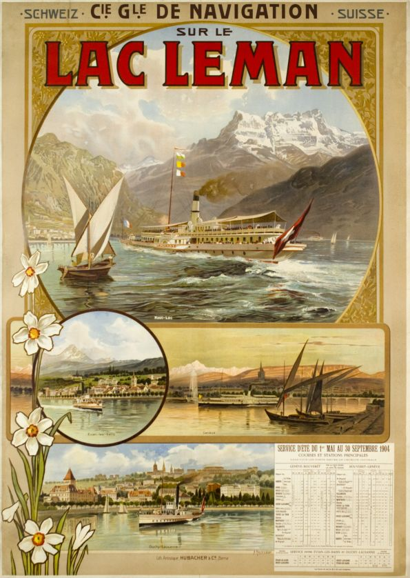 Poster of the CGN: Lac Léman.